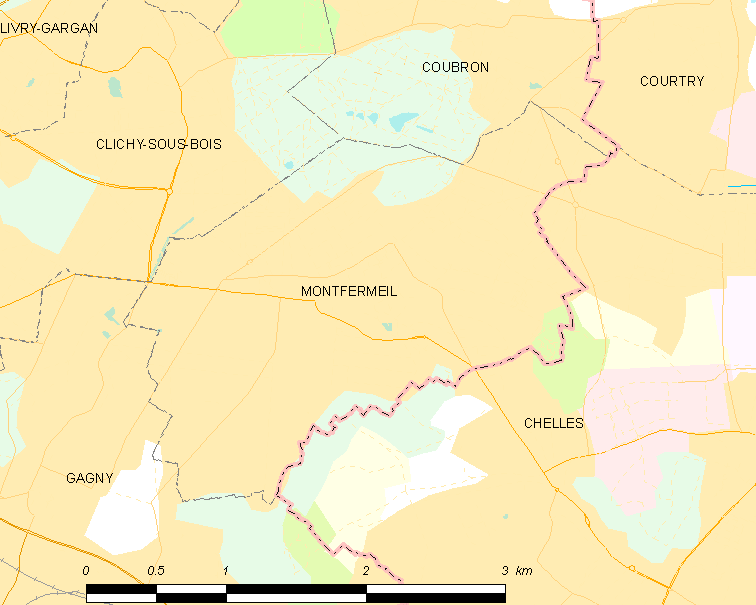 Map of French municipality Montfermeil